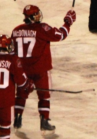 The Badgers salute the crowd after their thrilling victory.